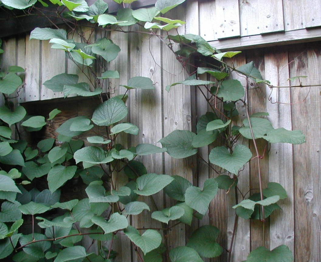 Vitis coignetiae: Habitus.